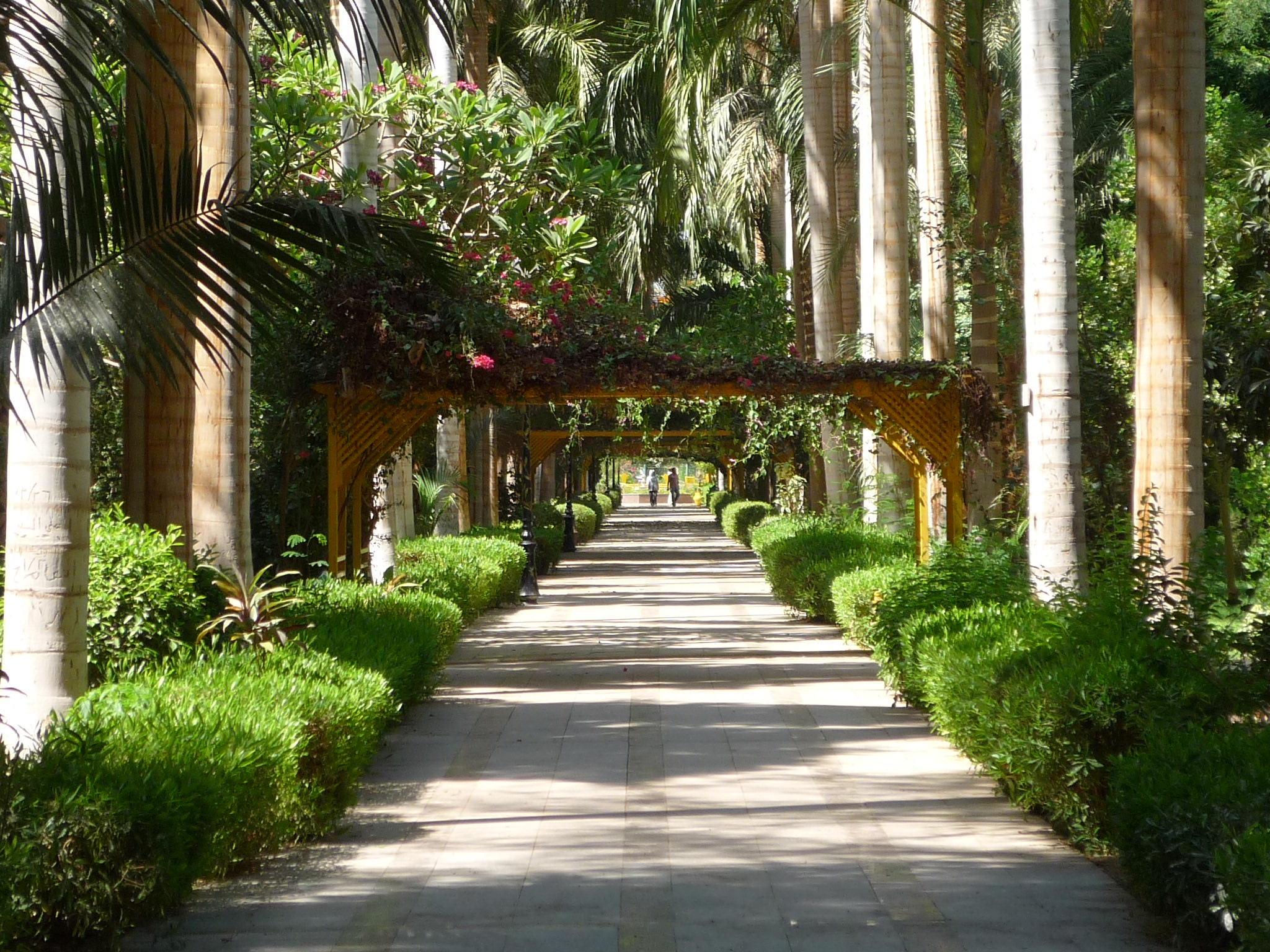 Garden walkway with pergola and vines. Palm tree allee (landscape avenue) - of Roystonea regia palms. In the Aswan Botanical Garden - on Kitchener's Island in the Nile, Aswan - Egypt.